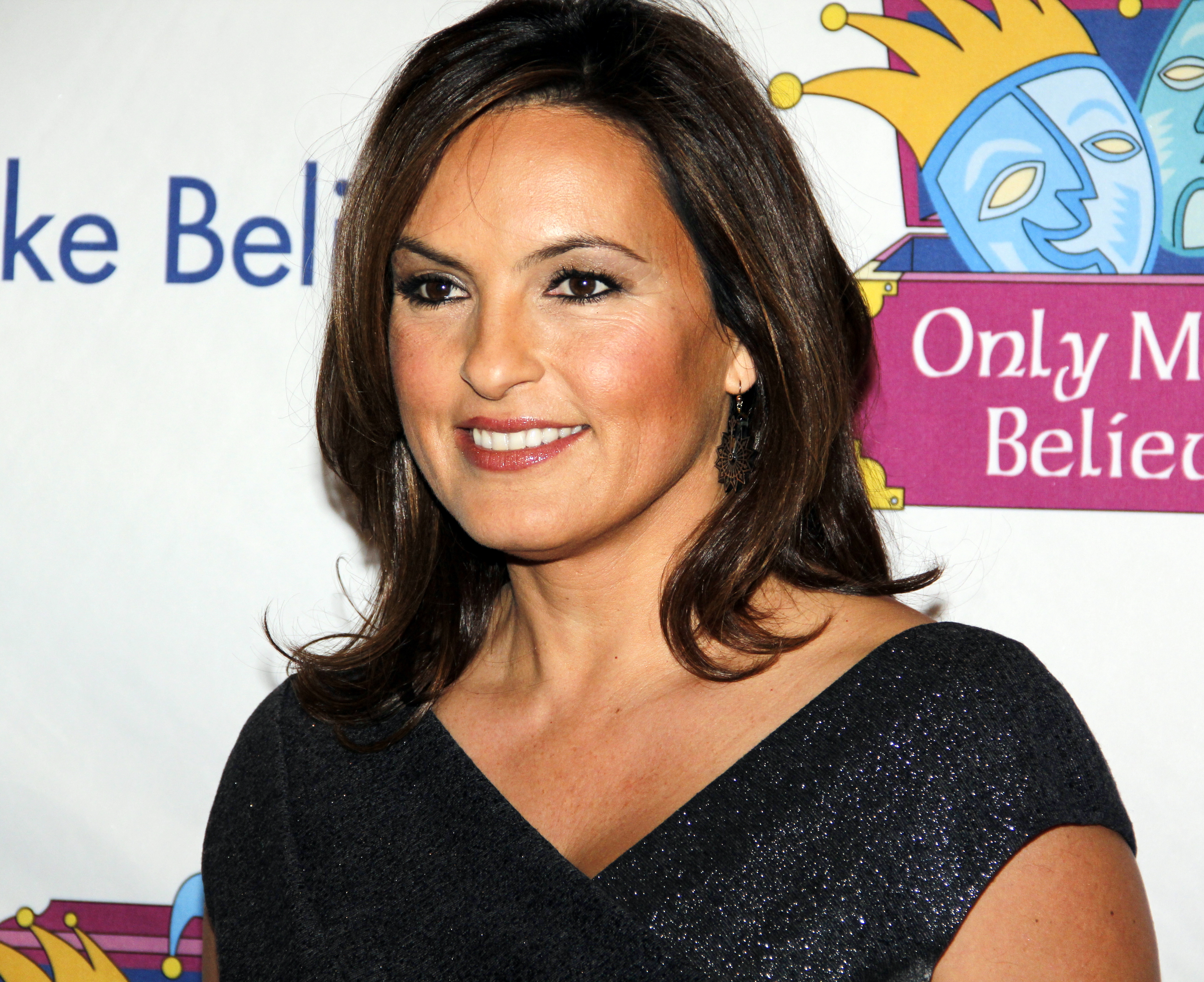 Mariska Hargitay at the Make Believe On Broadway 2011, New York City.